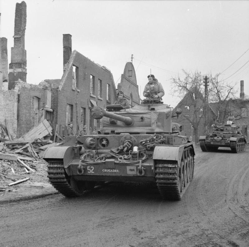 The British Army in North-west Europe 1944-45 Comet tanks of 11th Armoured Division drive through a devastated German town, 30 March 1945.